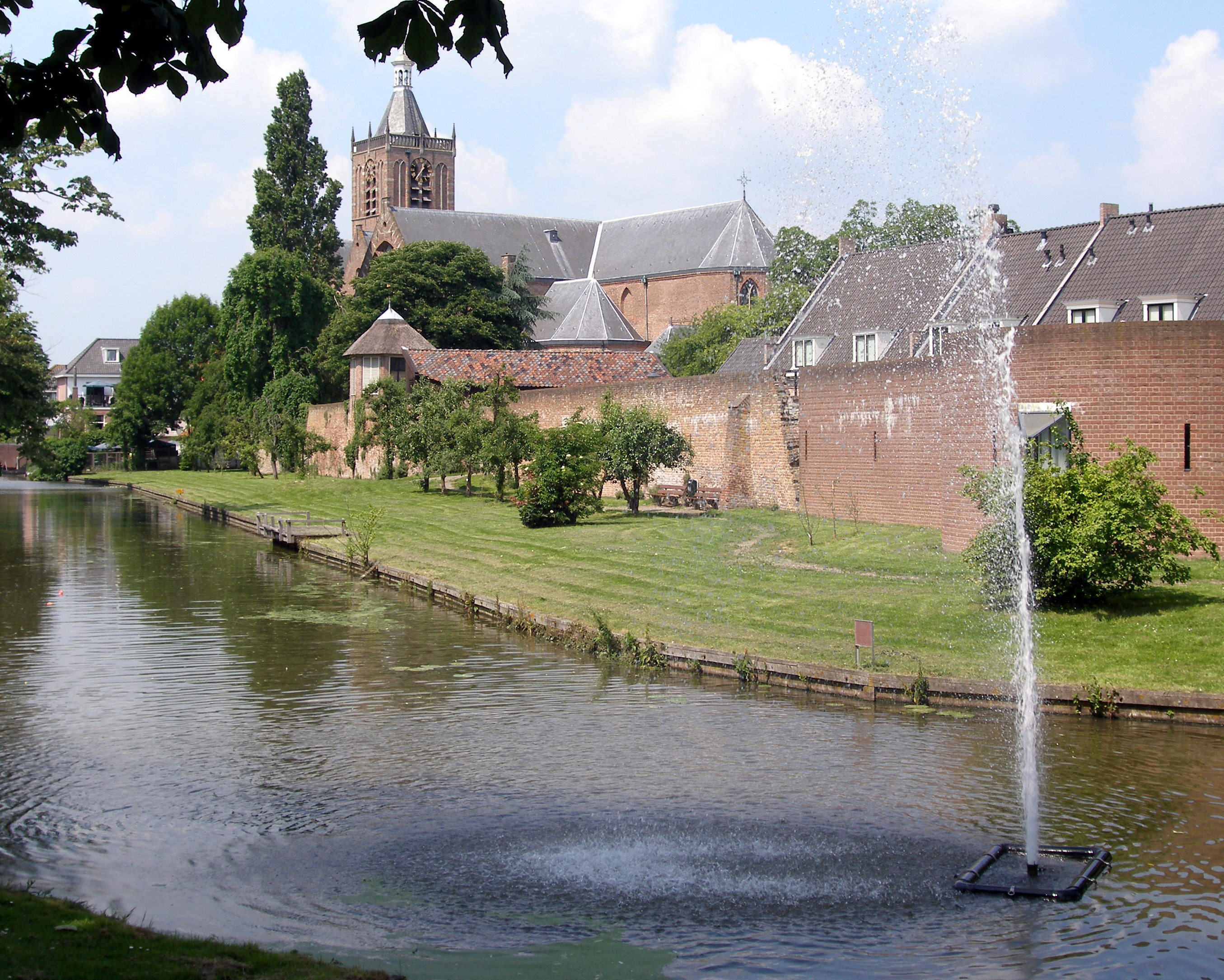 City wall and Grote Kerk in Vianen, the Netherlands.